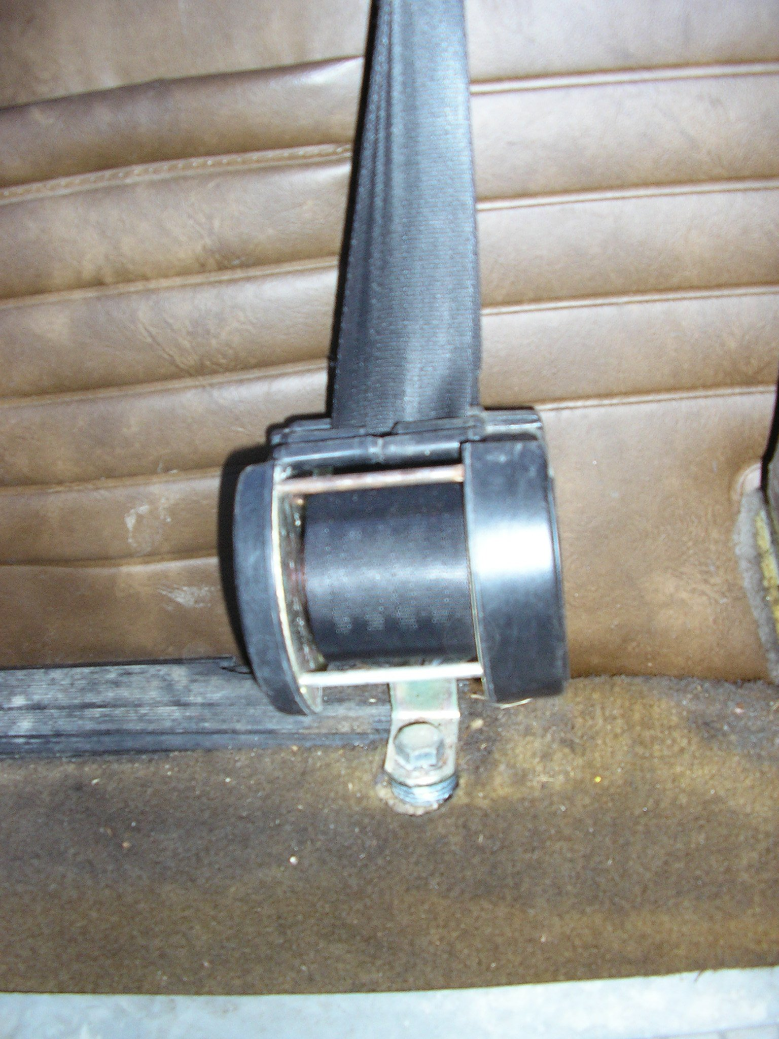 Inertial reel belt (with roll exposed), retrofitted in a 1973 SAAB 99L.